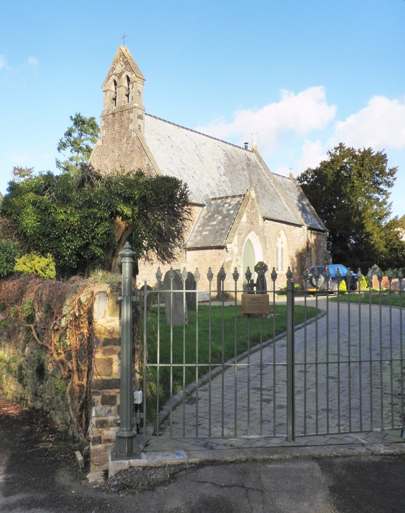 Former chapel of St John the Baptist, Cove, Devon, seen from the southwest